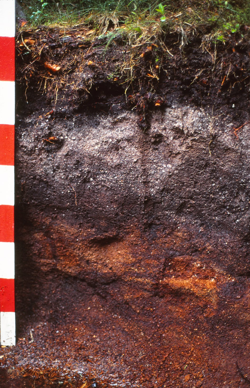 humus-iron podzol with characteristic illuvial Bhs subhorizon (light red). Feldberg area, Southern Black Forest, Germany.